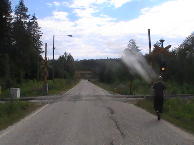 Finnish connecting road 5260 at Mätäsvaara, Lieksa. The road runs from Heinäluoto to Mätäsvaara.